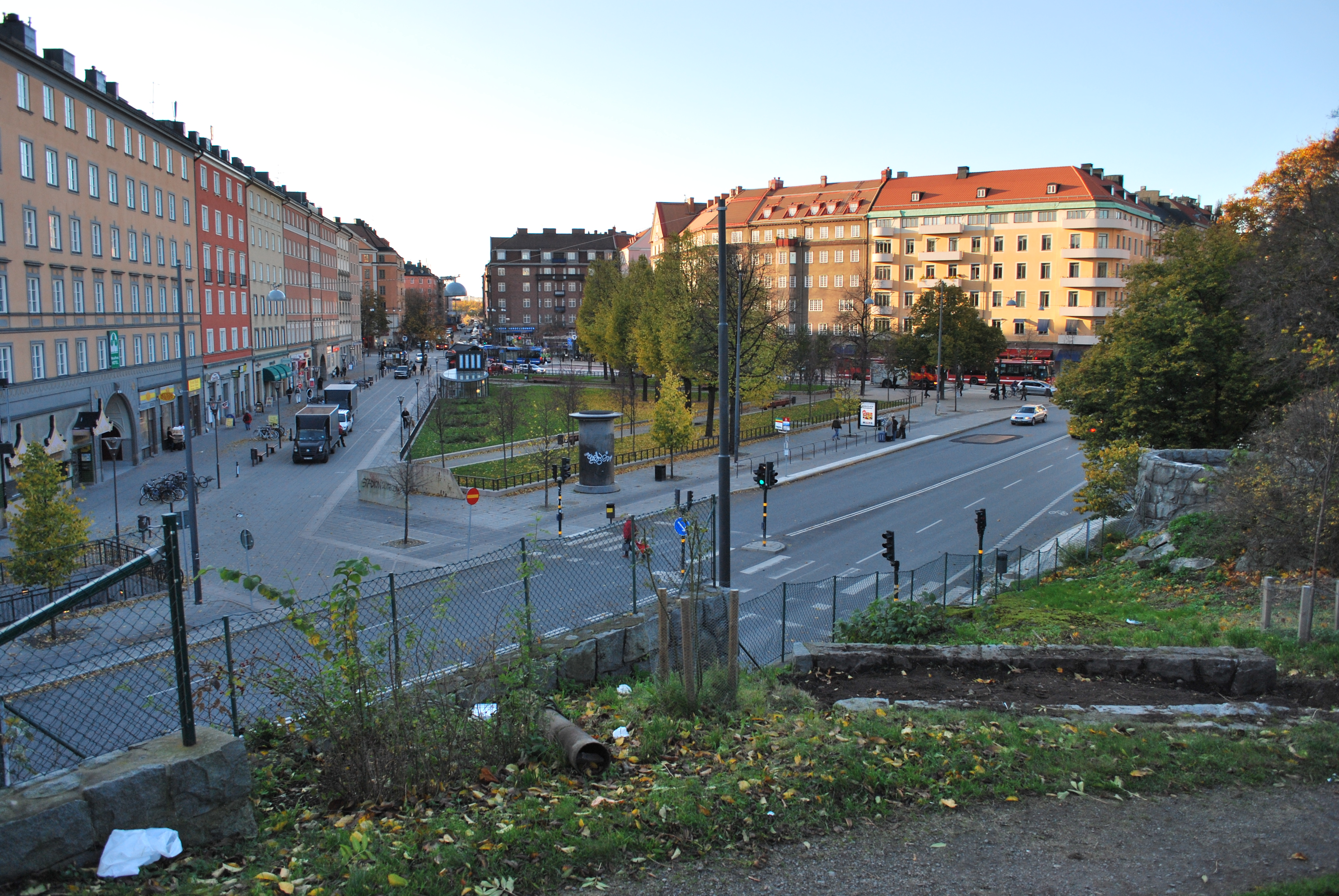 Sankt Eriksplan, Vasastan, Stockholm, seen from Vasaparken